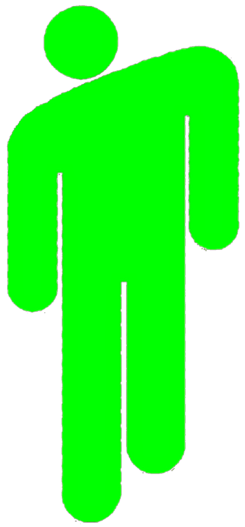 This is blohsh, Billie Eilih's official brand; she's been using it on her clothing, now becoming her symbol.